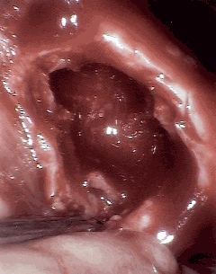 image of open cavitation